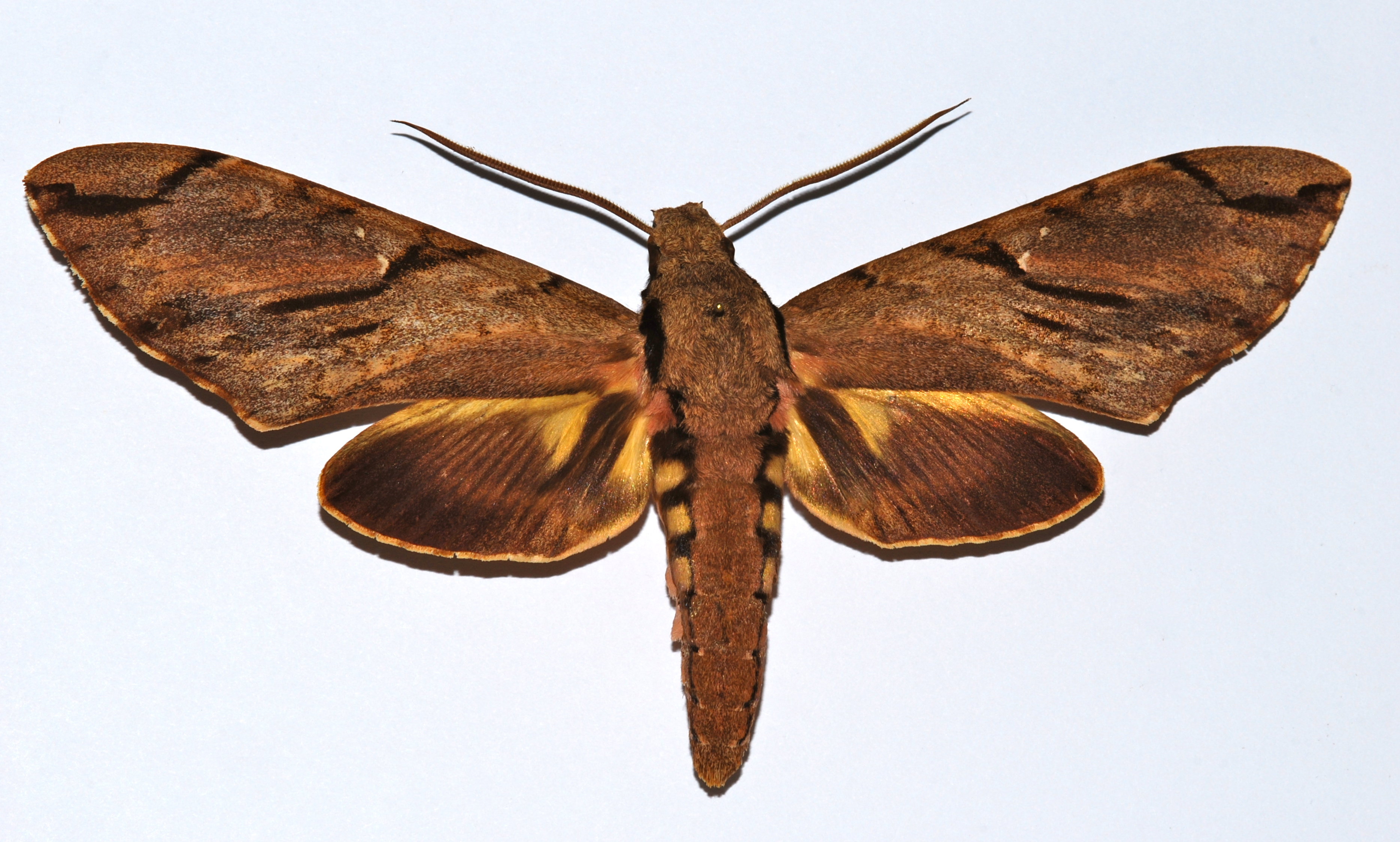 Andasibe, MADAGASCAR Last name of this moth is because of Darwin who predicted its existence from the length of Angraecum sesquipedale's spur (see next picture)